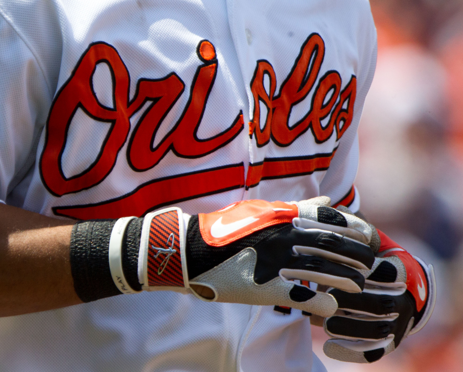 Nationals at Orioles June 24, 2012